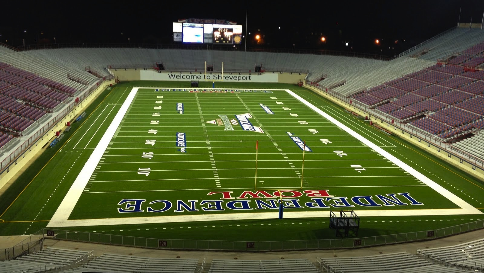 Photo of Independence Stadium from the South end zone in Shreveport, Louisiana.